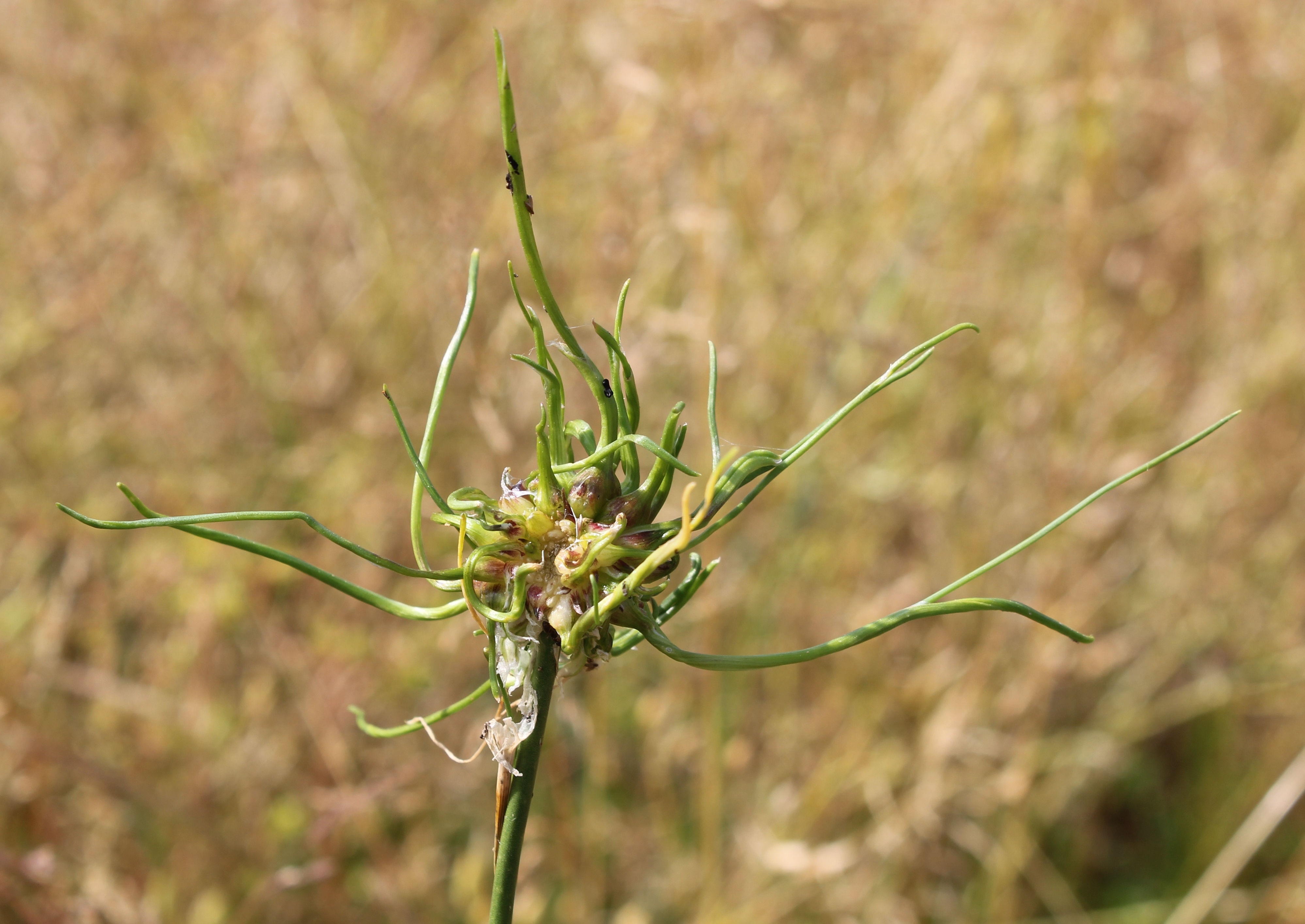 Allium vineale